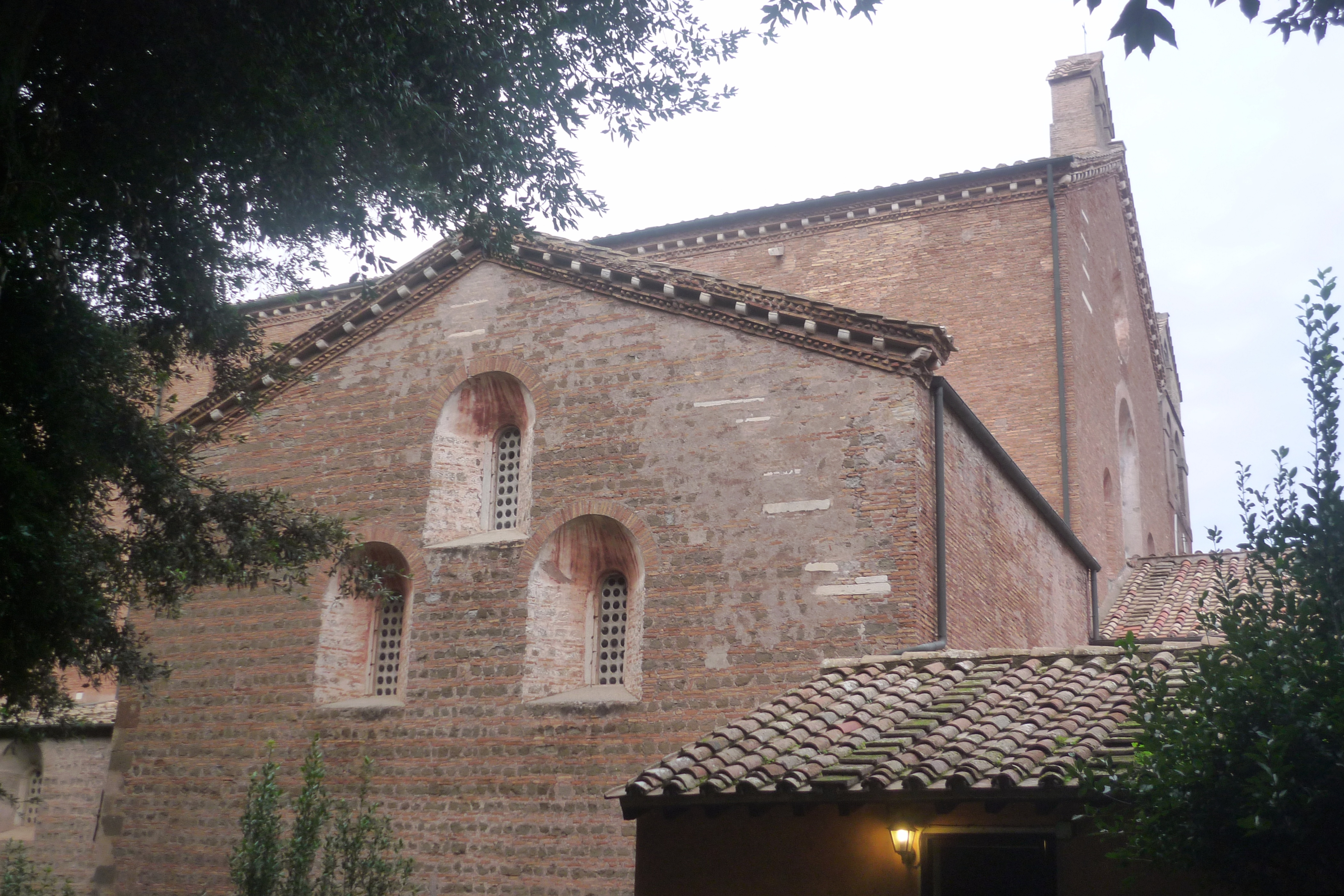 Church of Santi Vincenzo e Anastasio, "Tre Fontane" Abbey, Rome - Italy